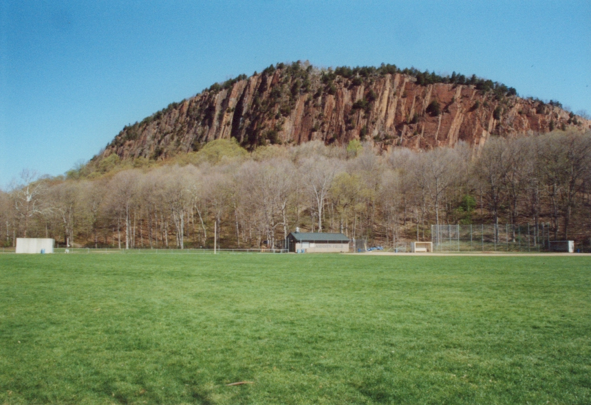 West Rock. New Haven Connecticut. 2003. Paul Gagnon